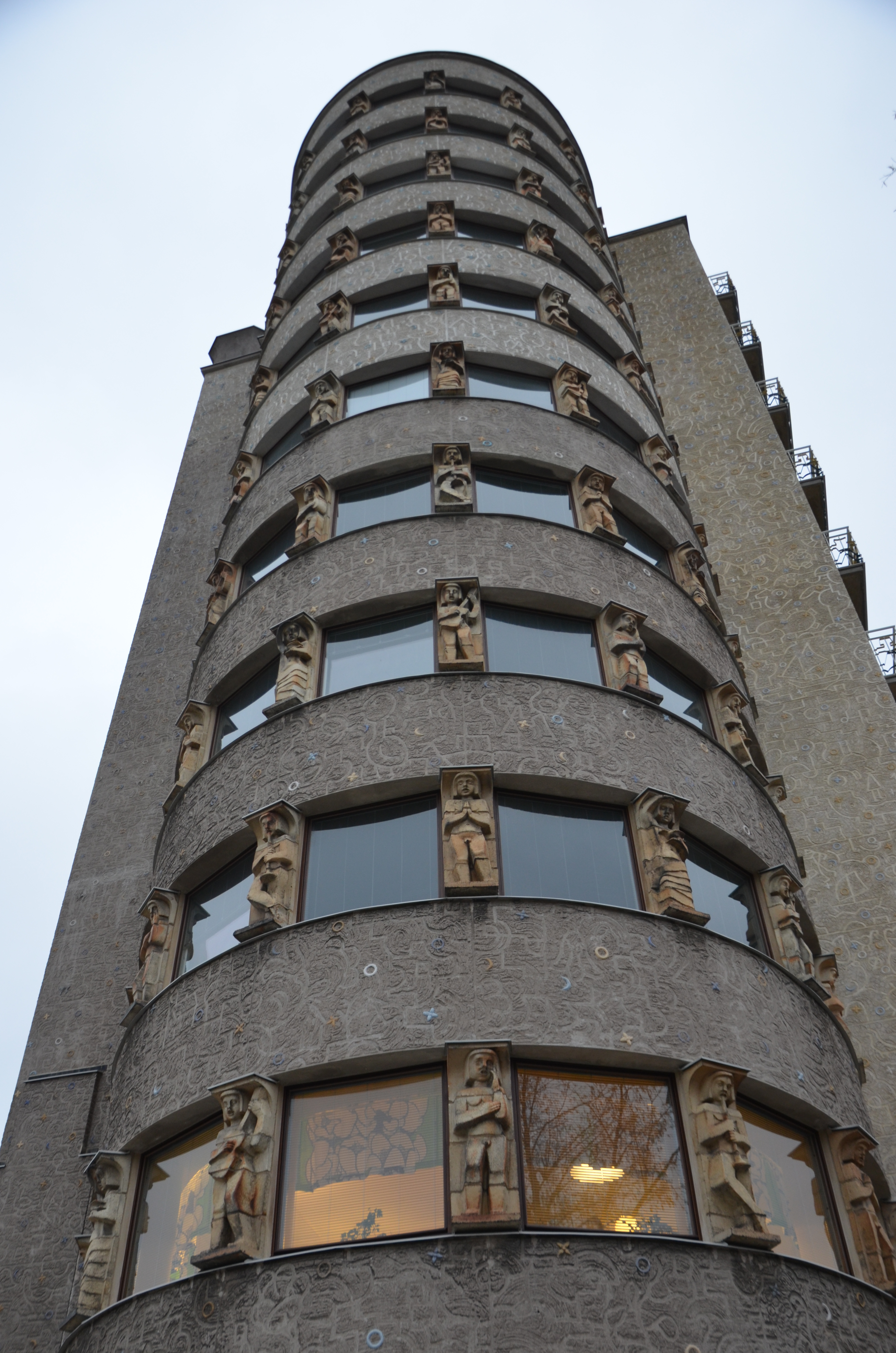 Barnens slott